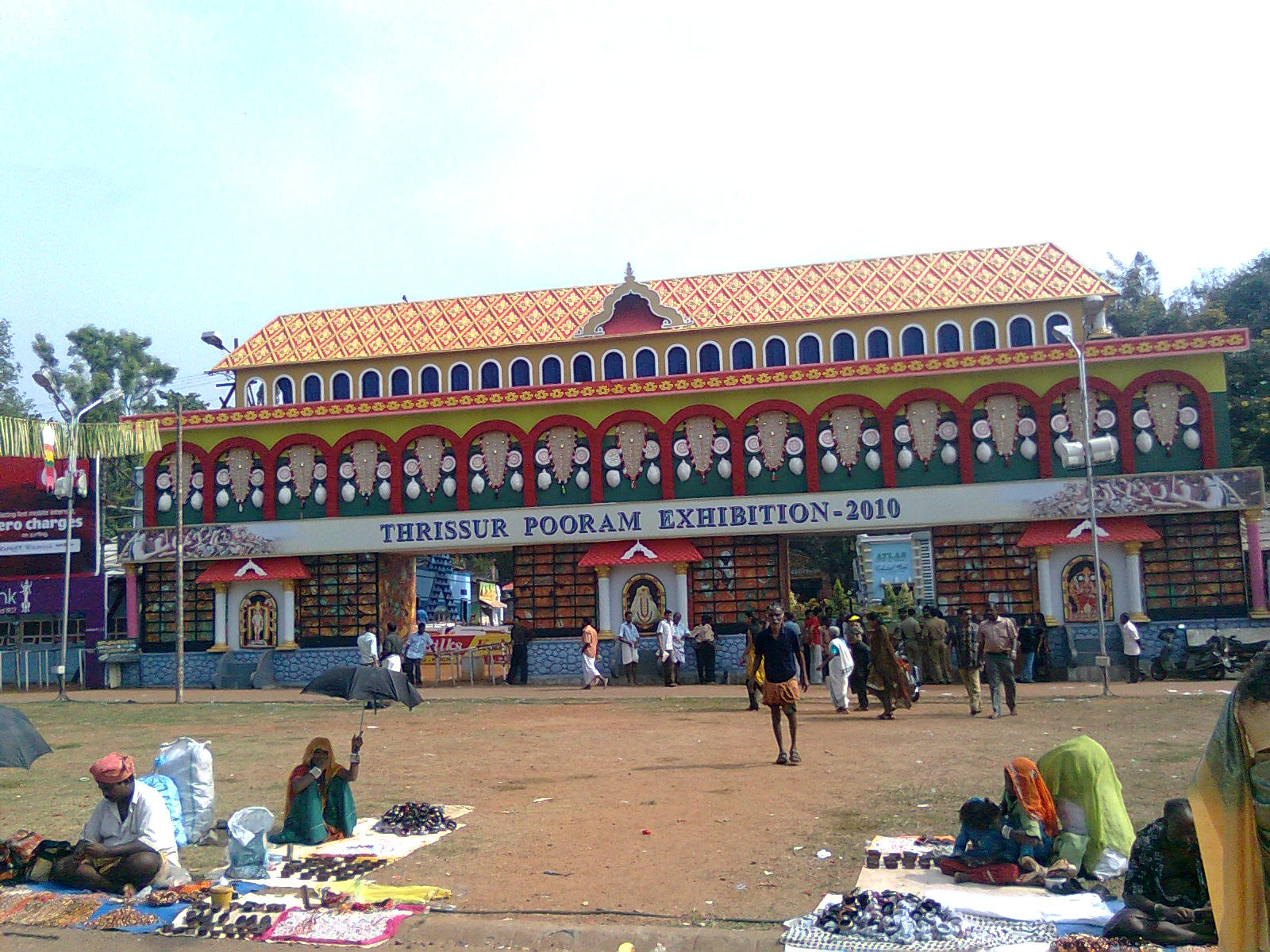 thrissur pooram exhibition 2010